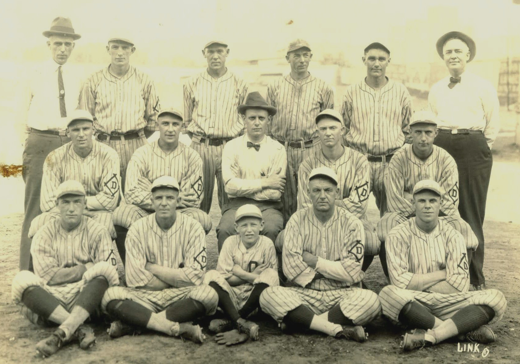 Professional baseball team Dubuque Climbers